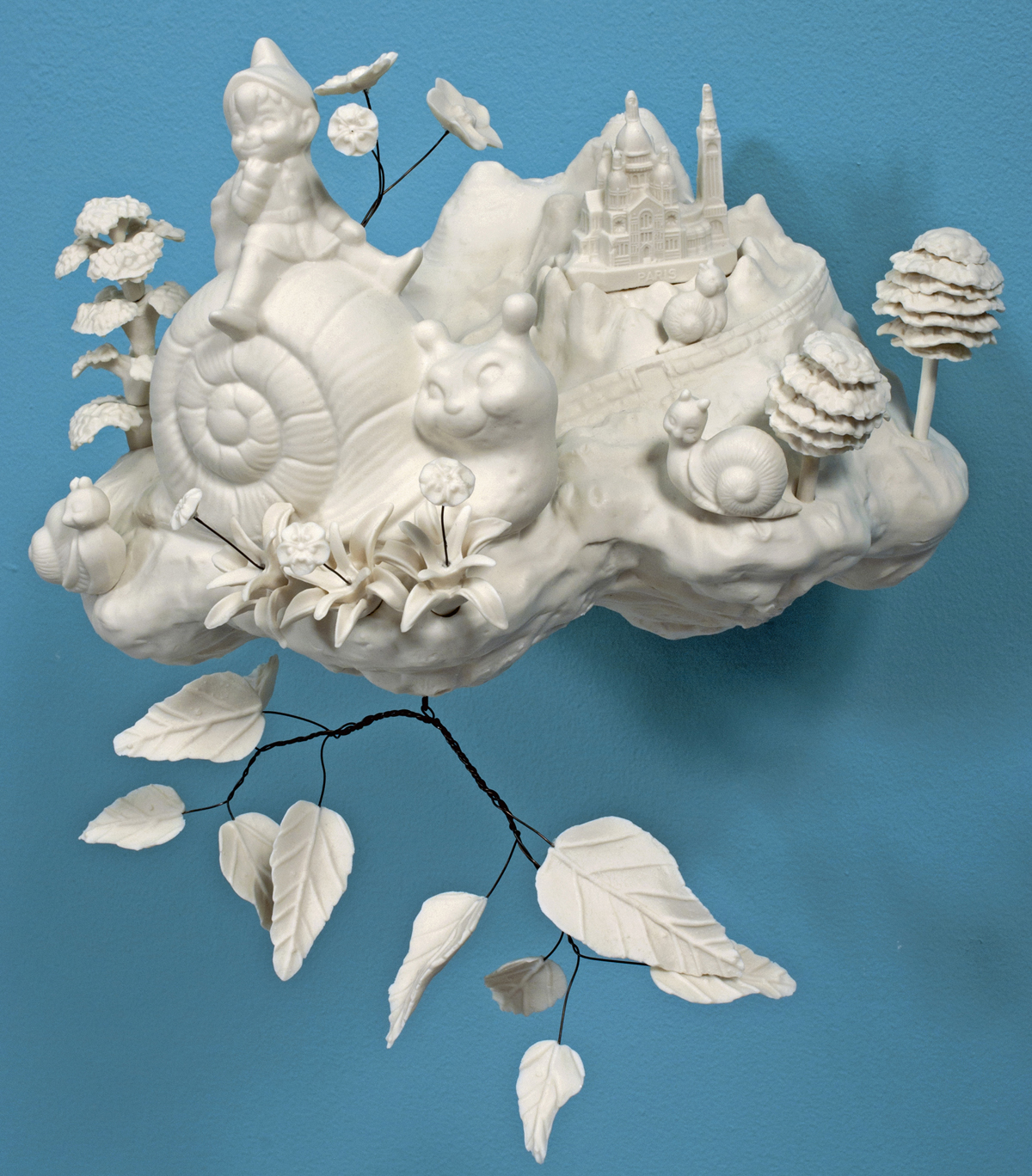 Folly, detail, elf, snail, Sacre Coeur, Beth Katleman, photo by Alan Wiener porcelain, wire, steel rods, head-shrink tubing